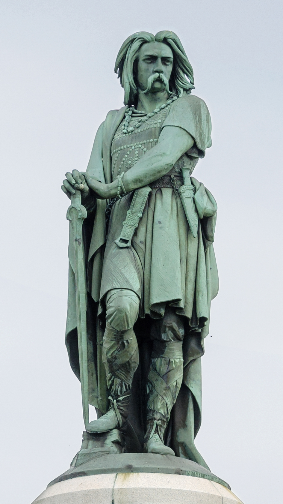 Vercingetorix, monumental statue by Aimé Millet in Alise-Sainte-Reine, Côte-d'Or department, Burgundy, France.